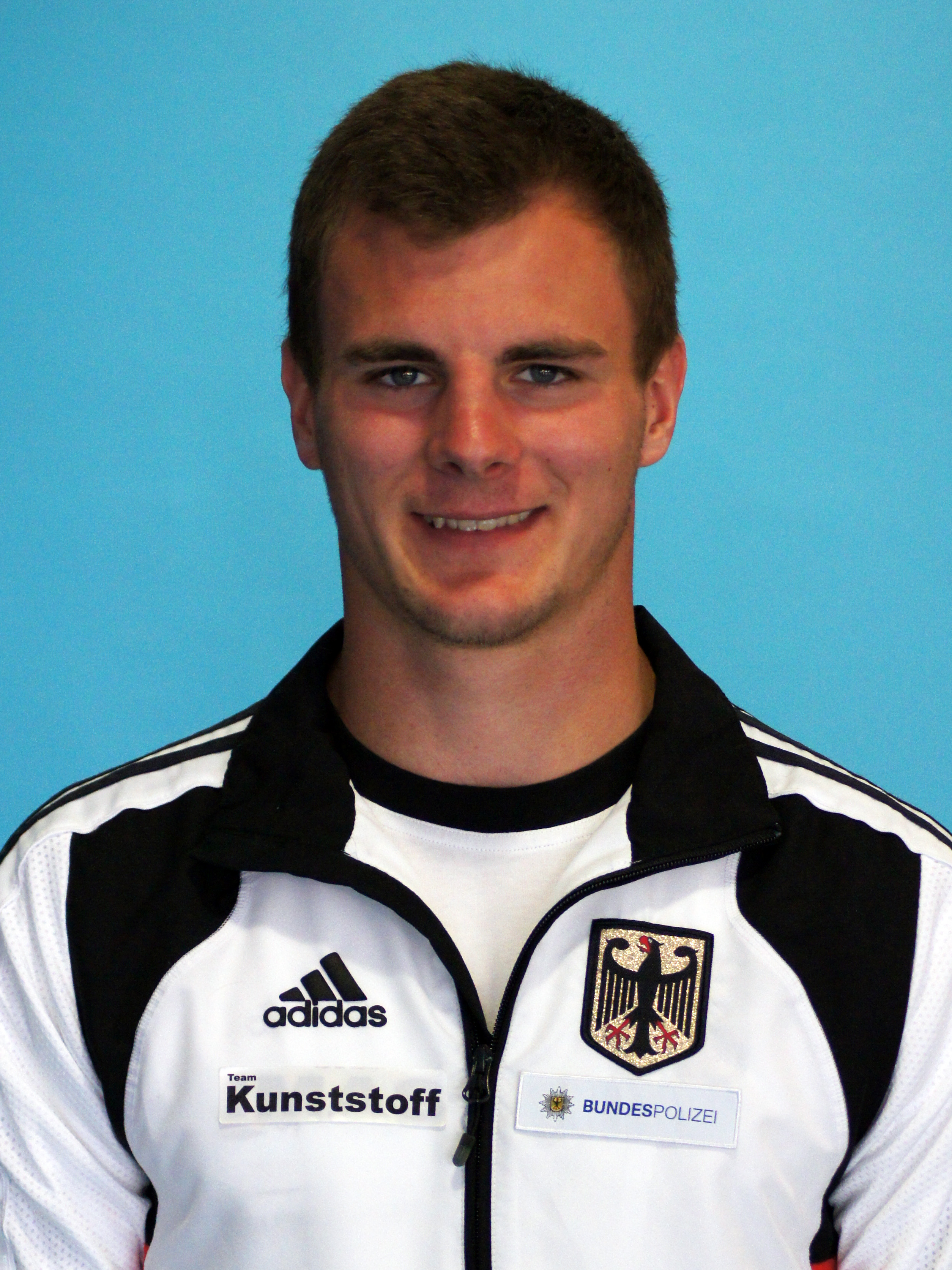 German Canoeist and Participant of the Olympic Summergames 2012